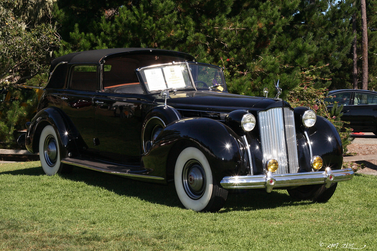 1938 Packard 1608 V12 Brunn All-Weather Cabriolet town car Pebble Beach Concours dElegance 2007